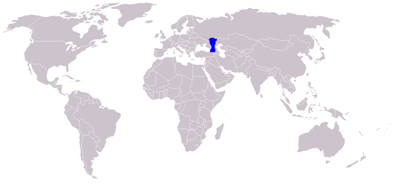 Vipera kaznakovi distmap(BLACK)